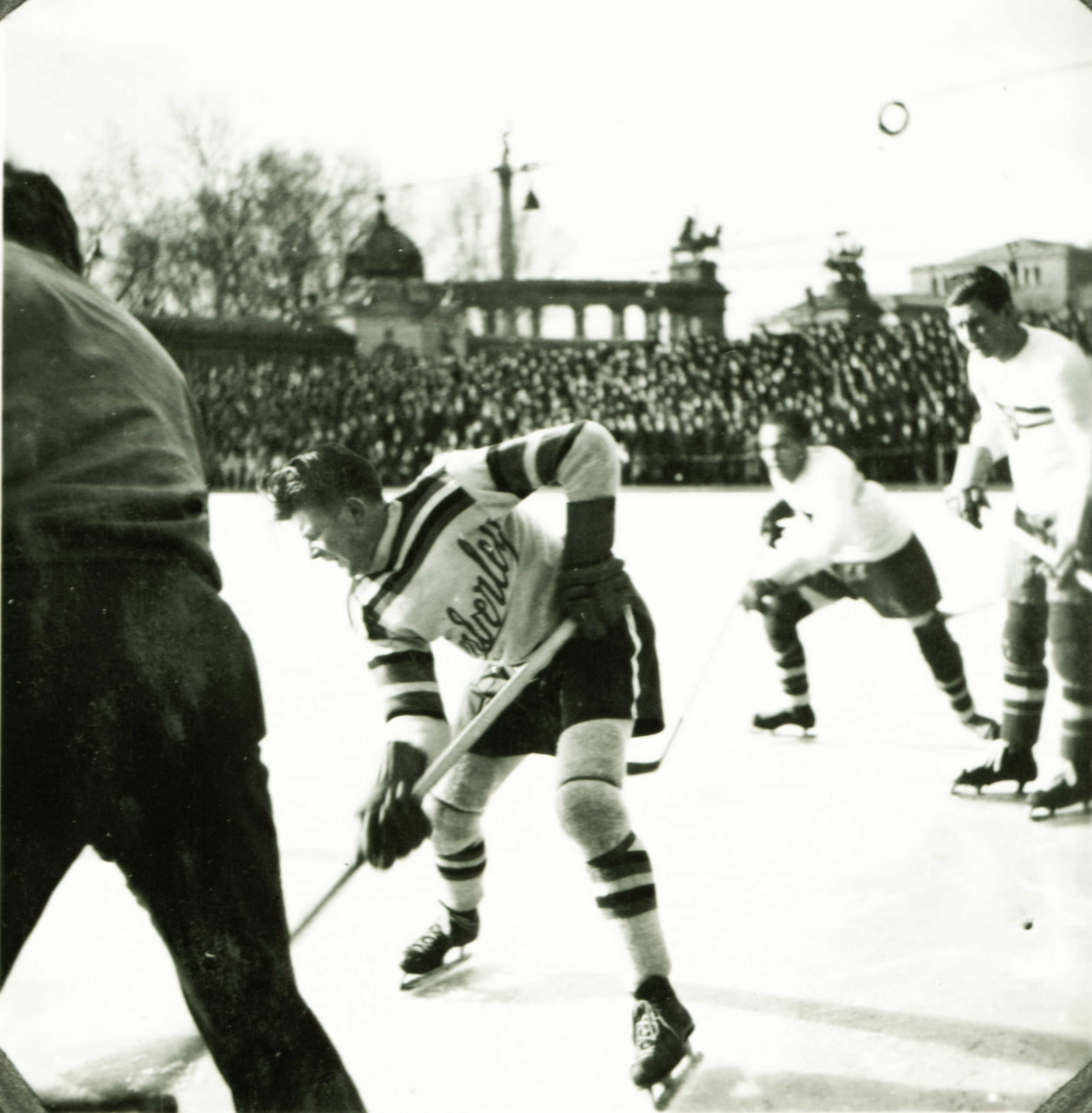 Kimberley Dynamiters vs. the Hungarian national team, Budapest 1937-01-10